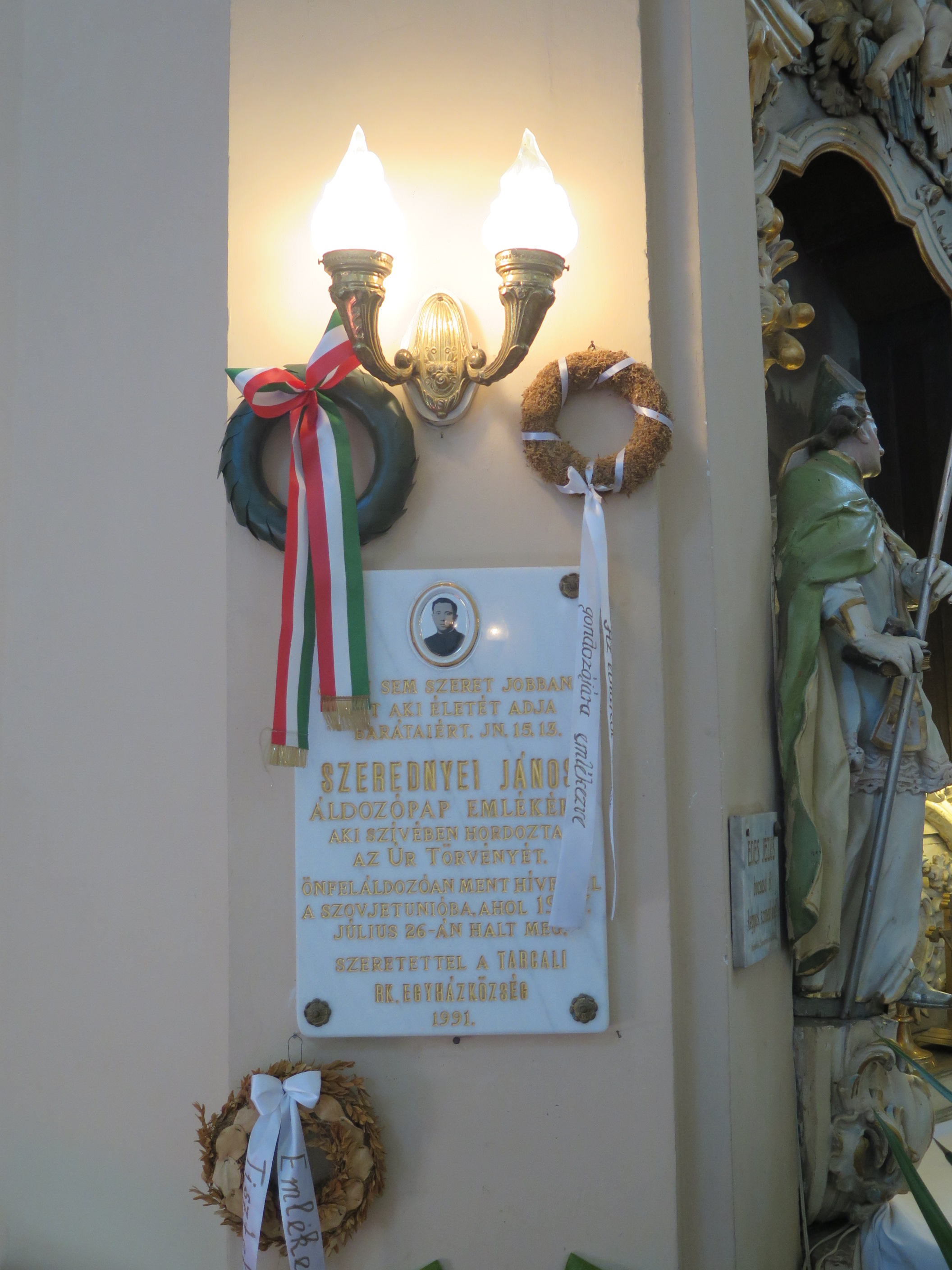 Memorial plaque of János Szerednyei in Tarcal, Hungary